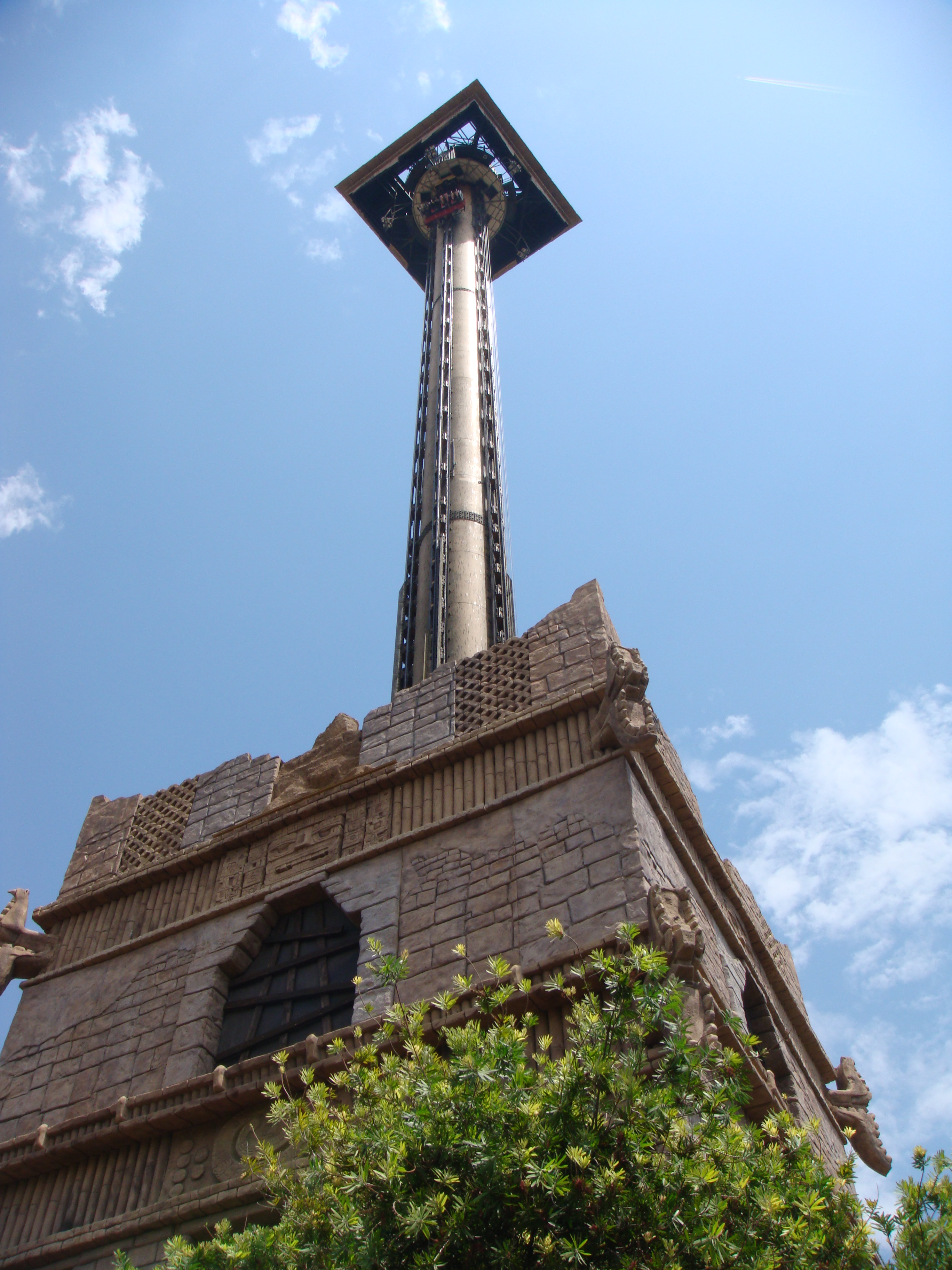 Hurakan Condor botom view.